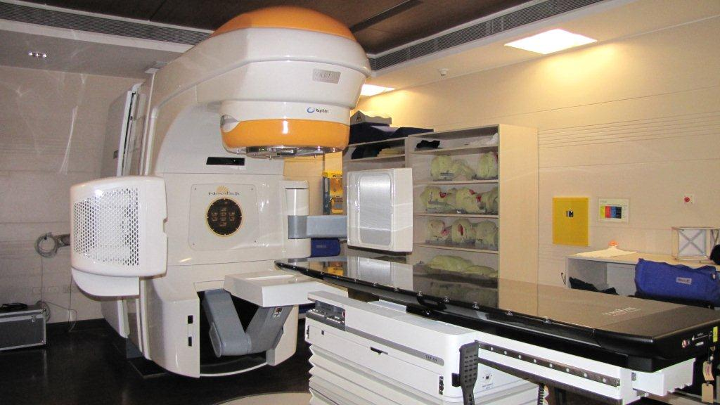 Novalis TX